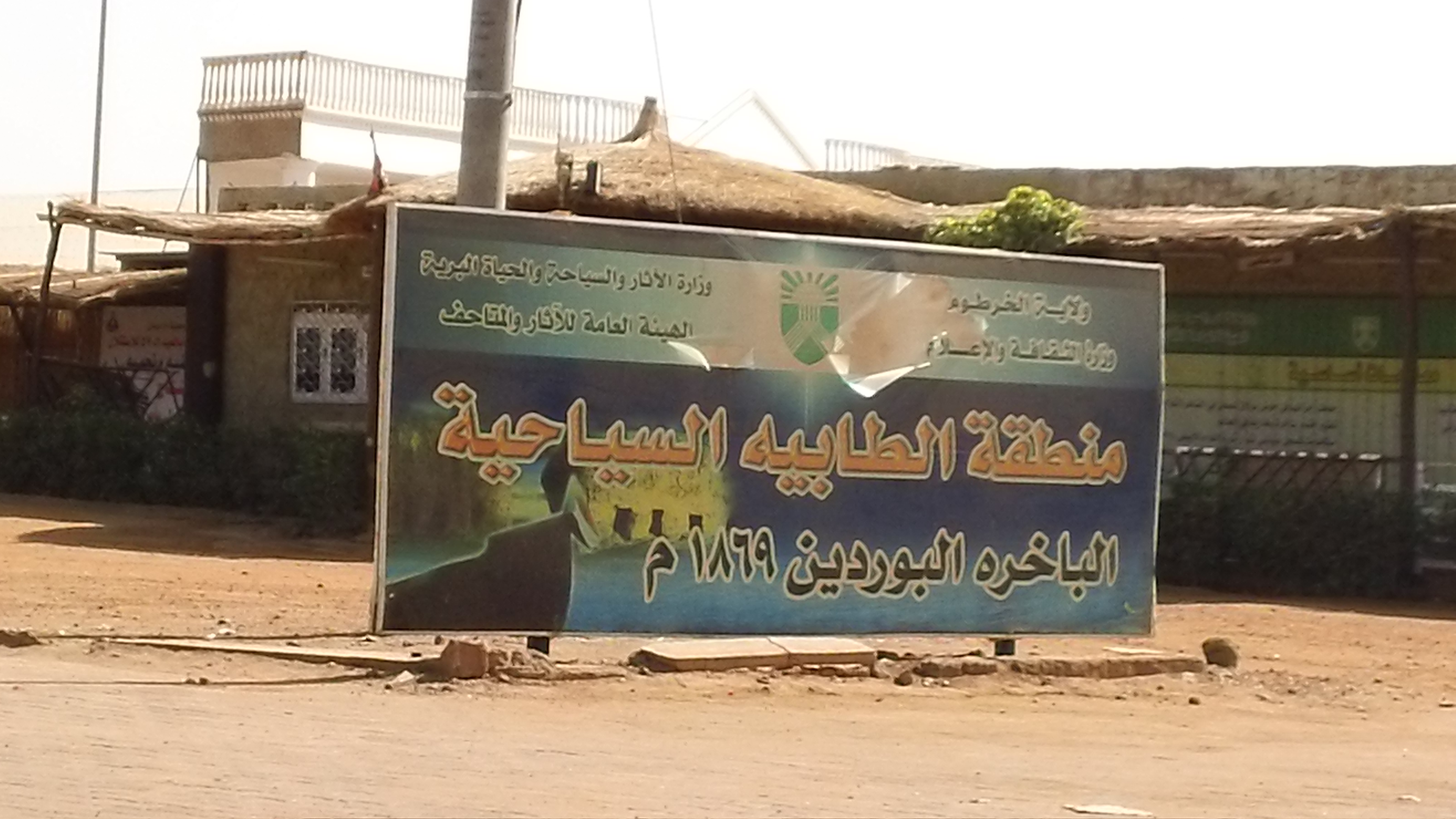 Altabya - Omudrman - Sudan